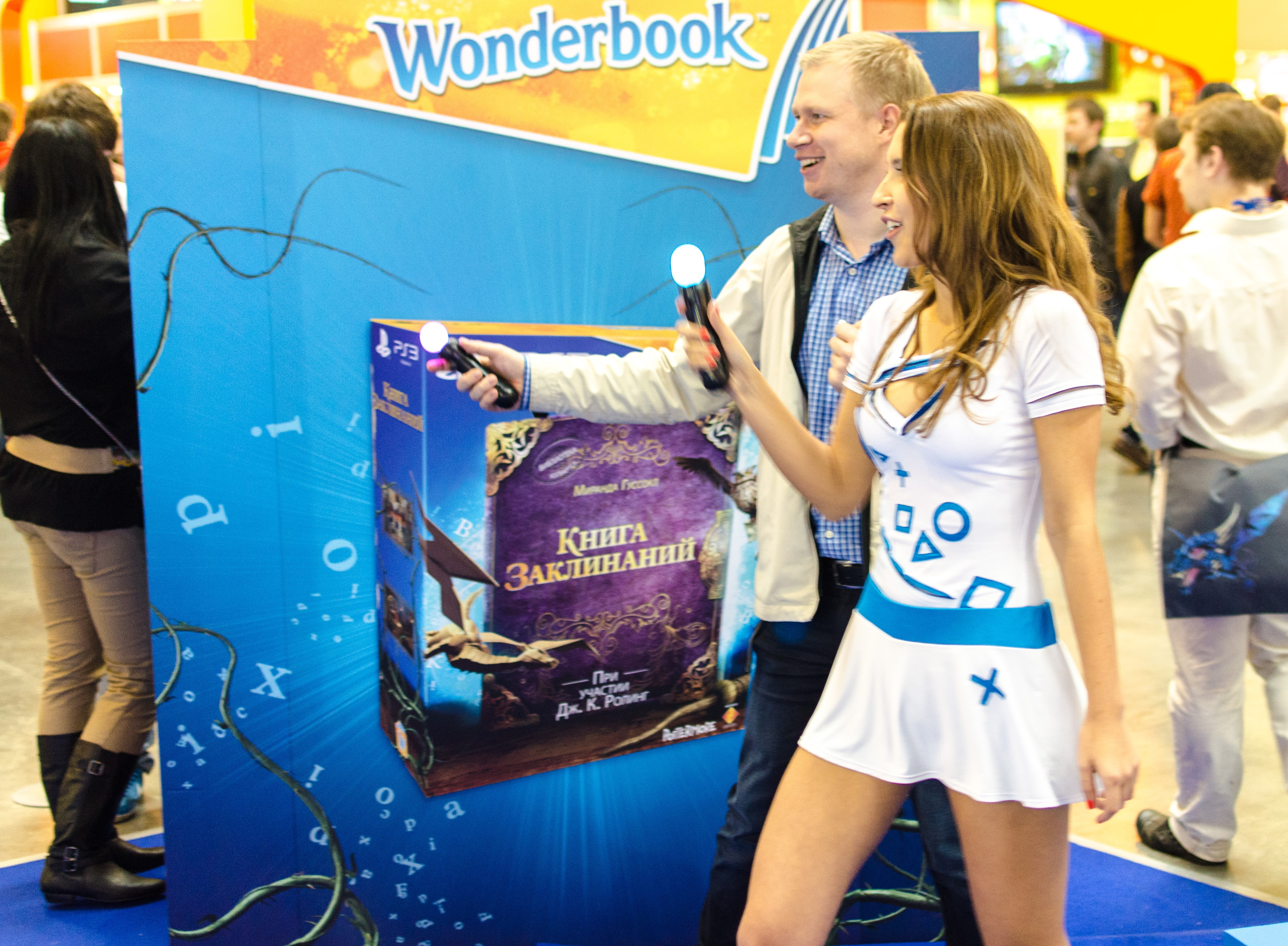 PS Move couple at Igromir 2012